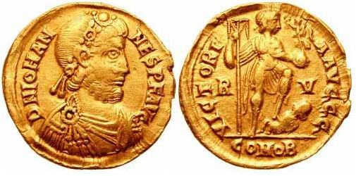 Johannes, AV Solidus, Ravenna mint. DN IOHANNES PFAVG, rosette-diademed, draped, cuirassed bust right / VICTORIA AVGGG, Johannes standing right, holding labarum and Victory on globe, stepping on captive. R-V across fields, mintmark COMOB. RIC 1901; Depeyrot 12/1.